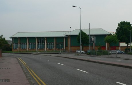 Maindy Swimming Pool The swimming pool at Maindy Sports Complex. On North Road, Cardiff